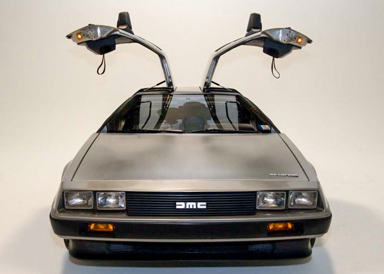 DeLorean DMC-12 Head on photo with doors open Photographed by Kevin Abato